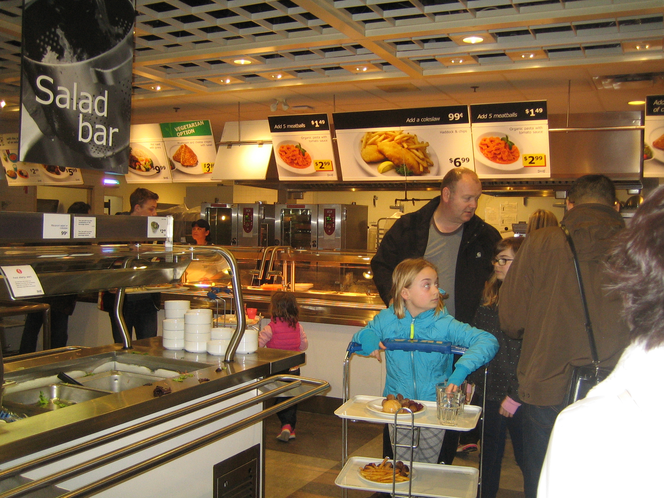 IKEA Restuarant in Coquitlam, British Columbia, Canada.中文（中国大陆）: 宜家家居顾客餐厅，位于加拿大不列颠哥伦比亚高贵林